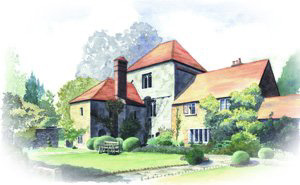 Rymans, Apuldram for Apuldram site painted by Apuldram 12:25, 3 August 2007 (UTC) 1998